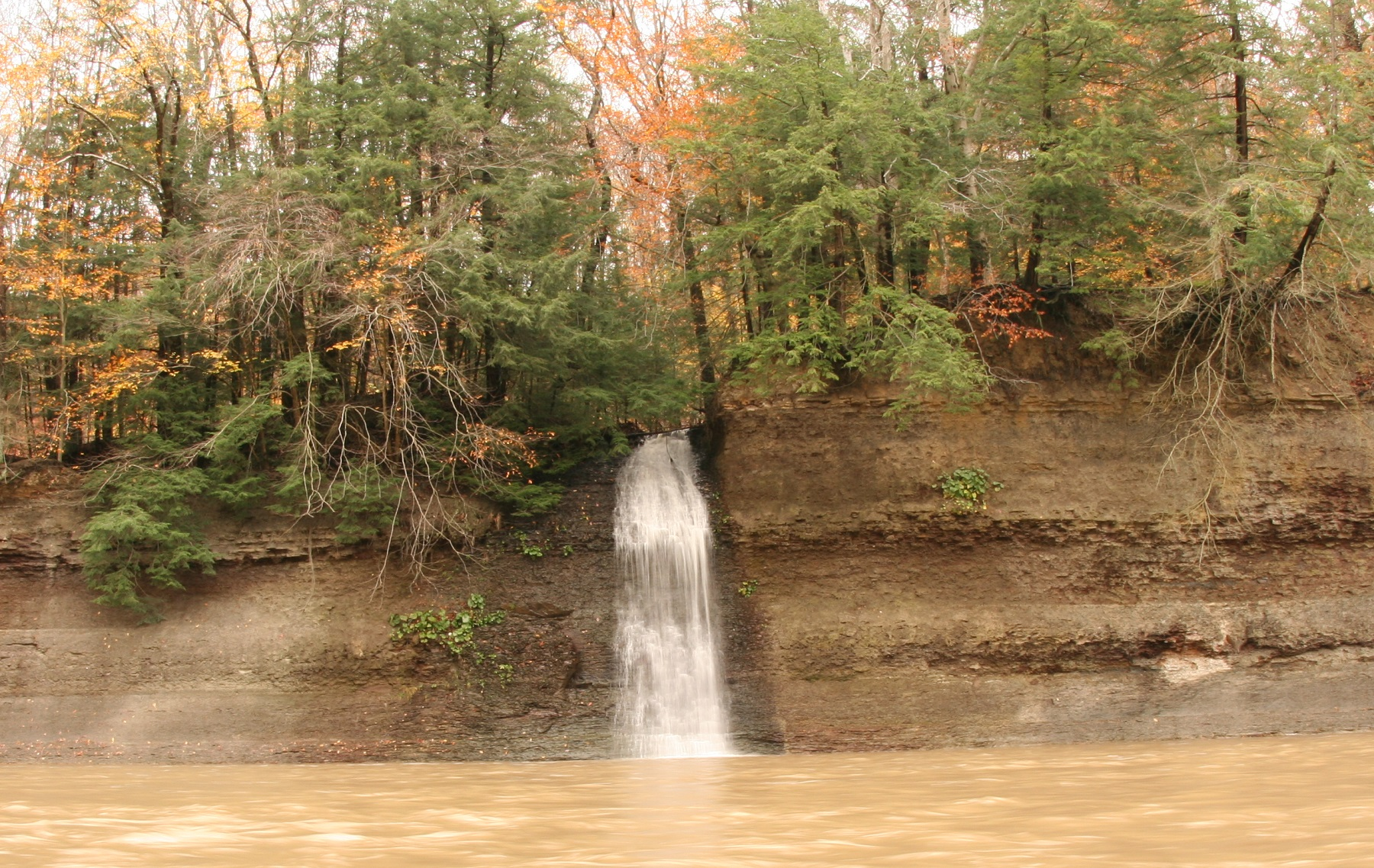 An ephemeral waterfall, flowing only after rain or rapid snowmelt. When it flows, it feeds into the Chagrin River (Ohio).